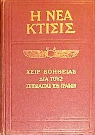 cover of the book Nea Ktisis